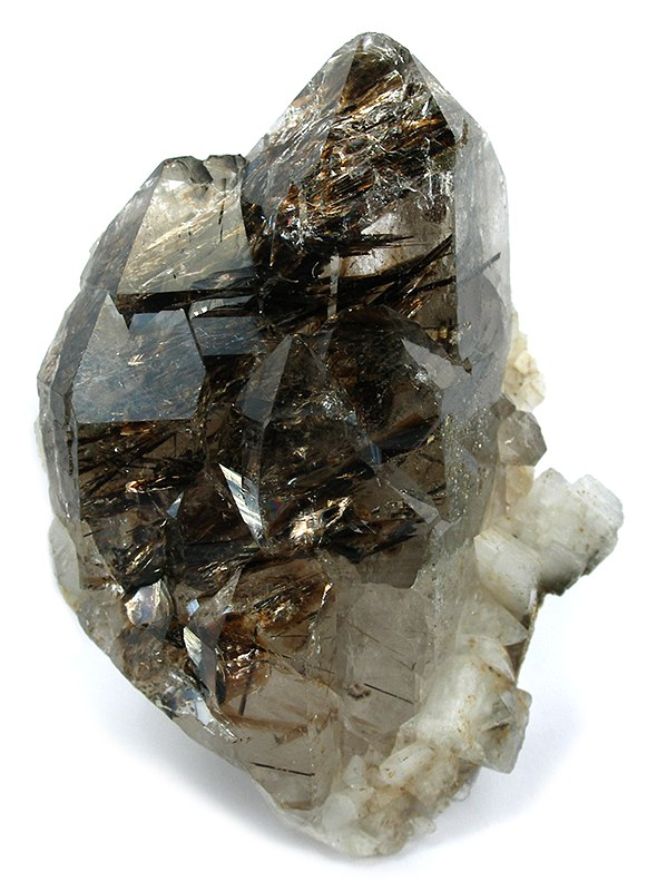 Astrophyllite, Quartz Locality: St Gotthard pass area, Central St Gotthard Massif, Leventina, Ticino (Tessin), Switzerland (Locality at ) Size: miniature, 6 x 4.6 x 2.2 cm Quartz with Astrophyllite inclusions This crysatl has incredible lustre and transparency, showing off the internal astrophyllite crystals which are also so bright they look metallic, and shine out starkly from within! A competition level quartz piece for the alps, very rare in such quality!